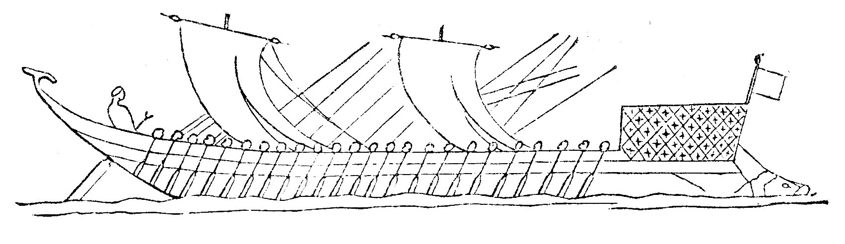 Illustration from "Illustrerad verldshistoria utgifven av E. Wallis. volume I": a Greek penteconter, a ship with 50 rowers.